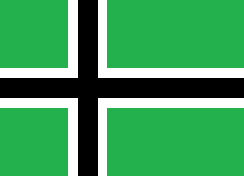 Flag_of_the_Forest_Finns